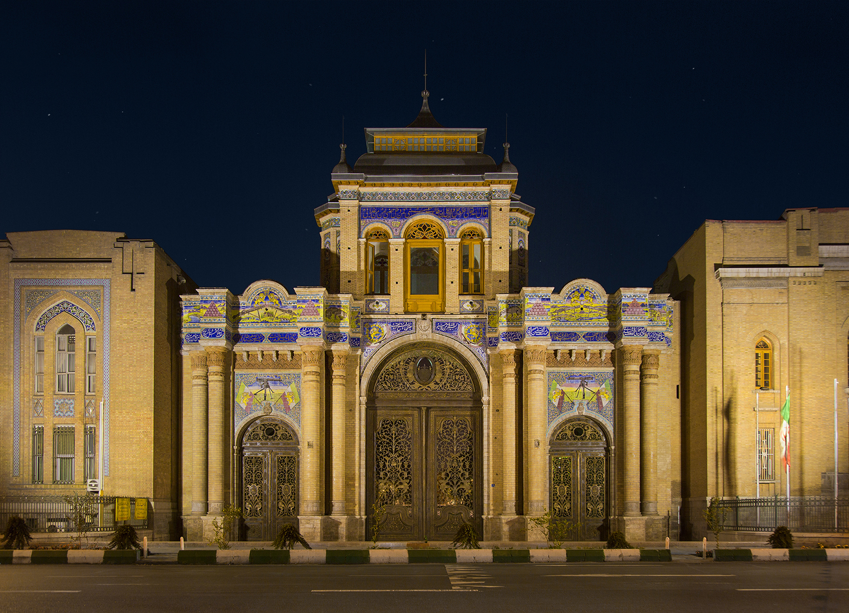 National Garden of Tehran Аҧсшәа: National Garden of Tehran